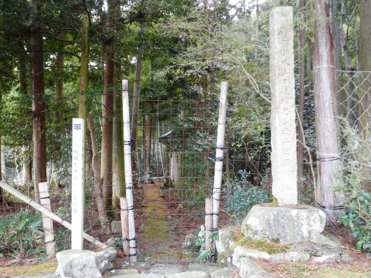 Toki Yoritada clan's mausoleum in Ikeda, Gifu.